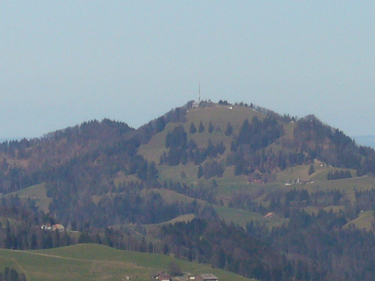 Mountain Hörnli (1133 m), canton of Zurich, Switzerland. Picture taken from the top of the mountain Bachtel by Peter Berger. March 4, 2007.